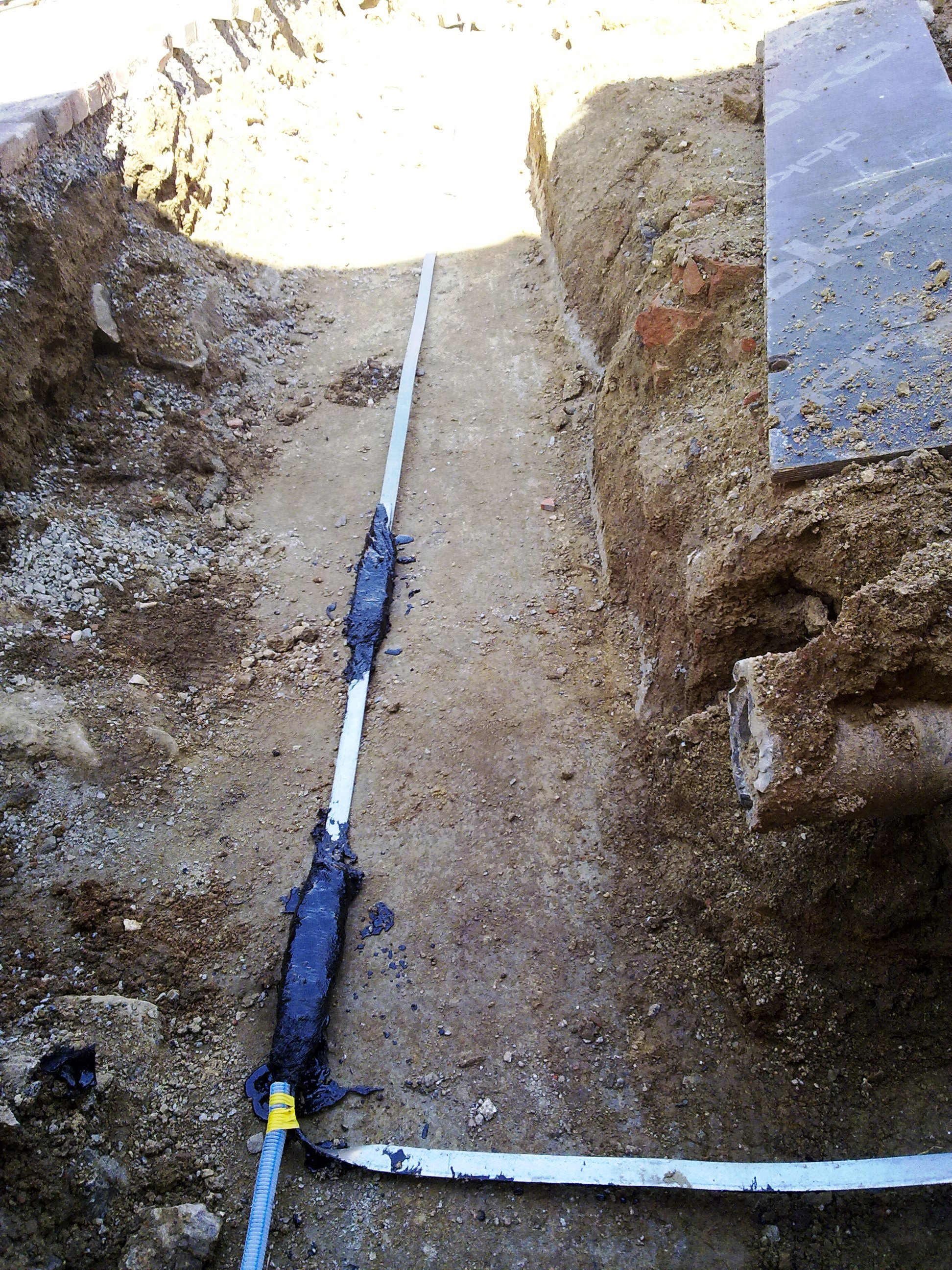 Earthing (ground (electricity)) wire system, showing detail of joints before covering with earth. Earthing systems for radio transmitters consist of cables or strips such as these buried in the ground.